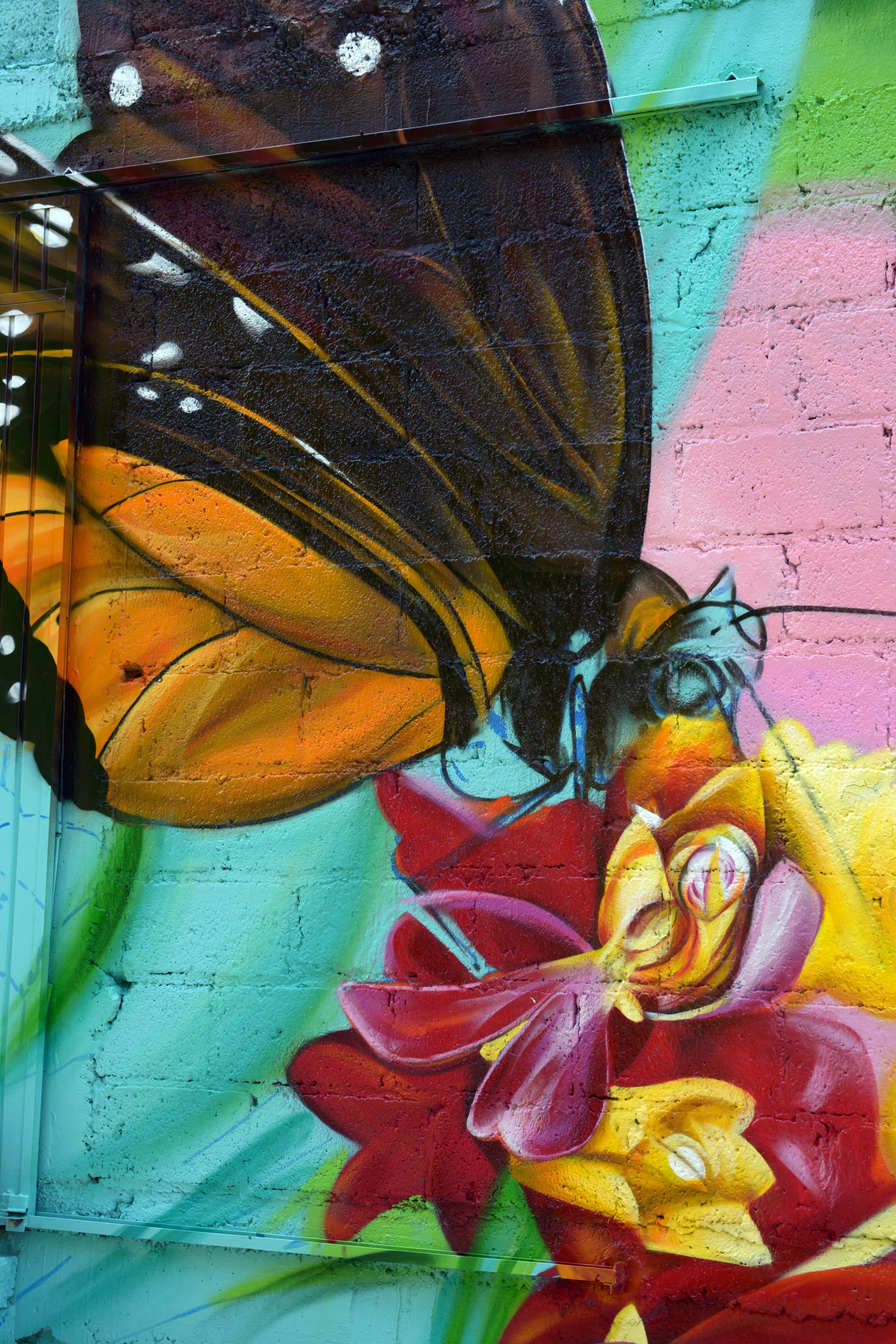 Inauguración del Macromural “Pachuca se Pinta”. Pachuca, Hidalgo. 31 de agosto de 2015.